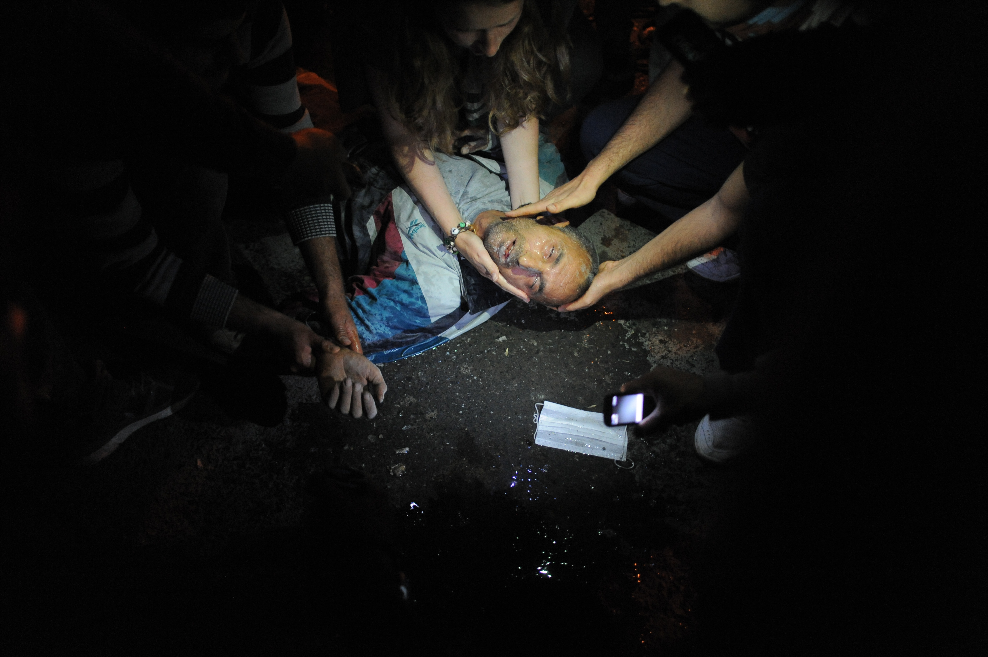 Casualties of Taksim protests. Events of June 3, 2013.